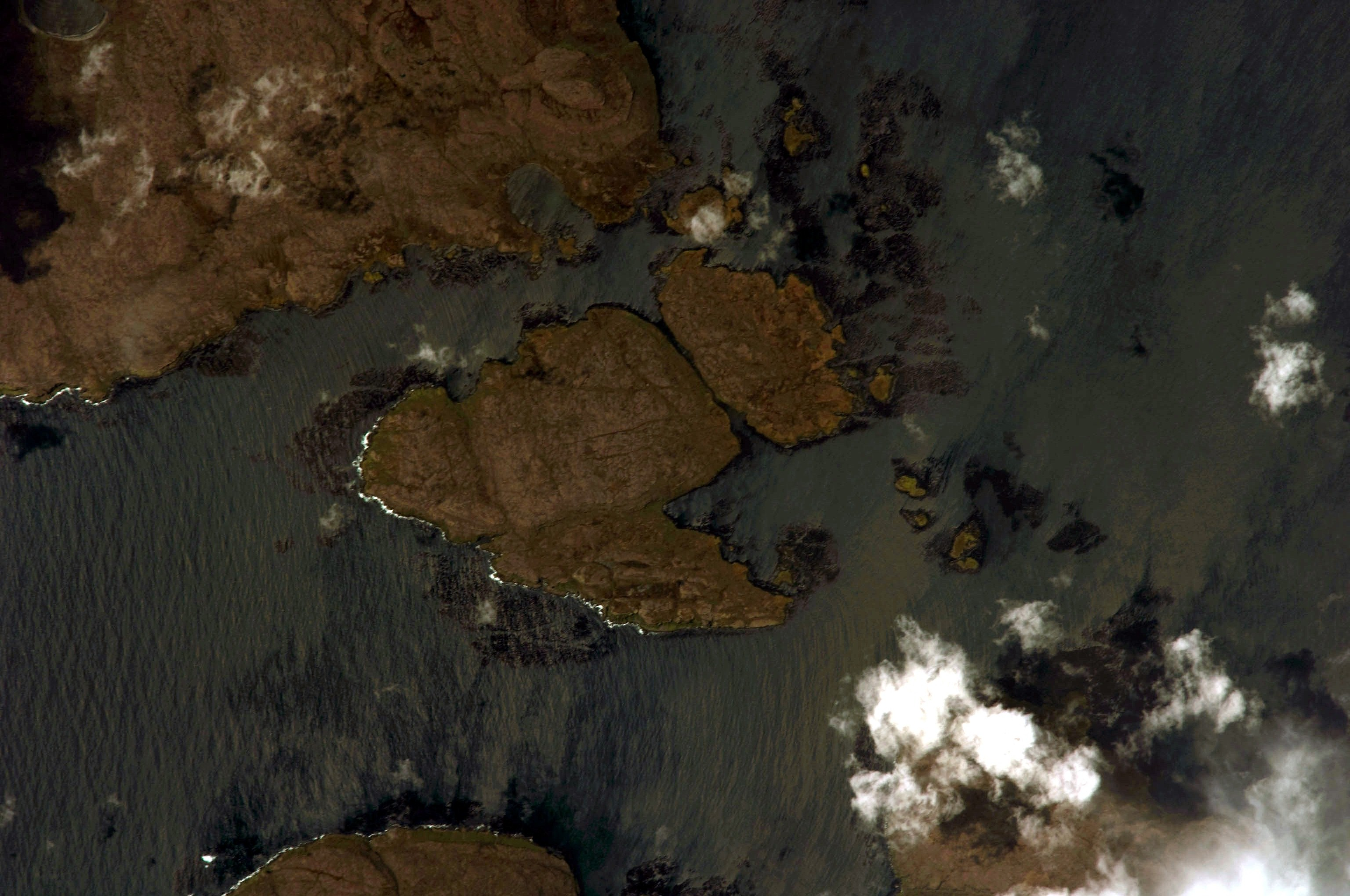 Astronaut photograph ISS018-E-18110 was acquired on January 6, 2009, with a Nikon D2Xs digital camera fitted with an 800 mm lens, and is provided by the ISS Crew Earth Observations experiment and the Image Science & Analysis Laboratory, Johnson Space Center.